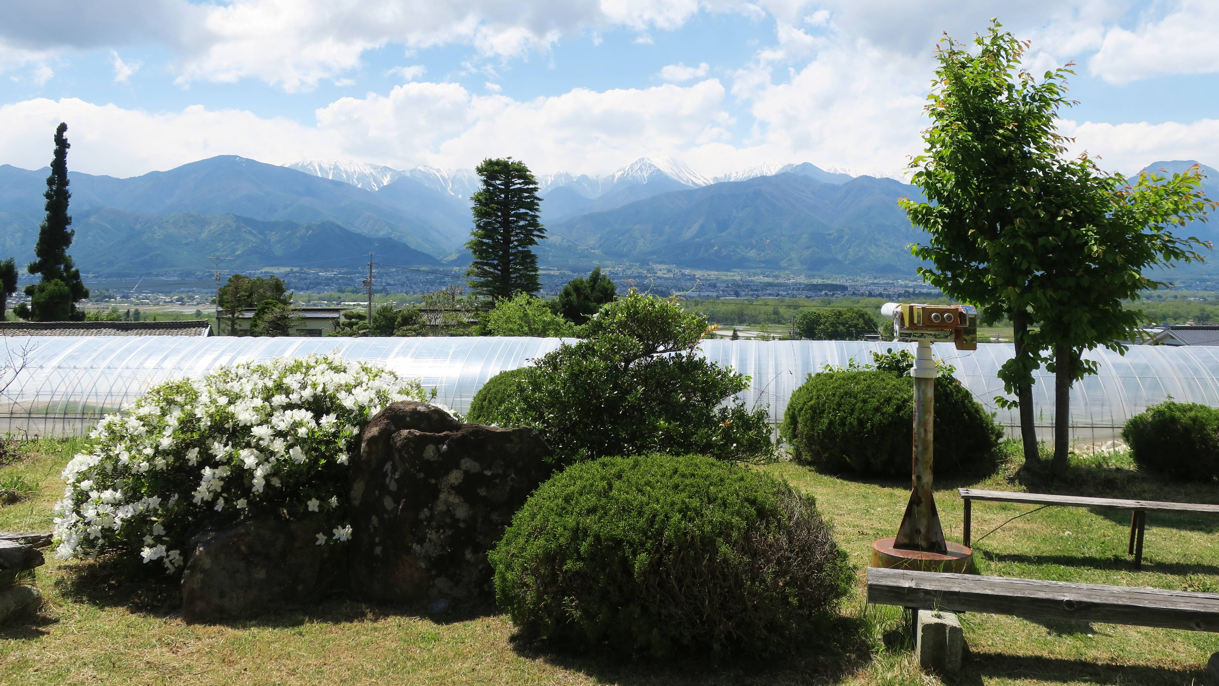 Nagaminesō.